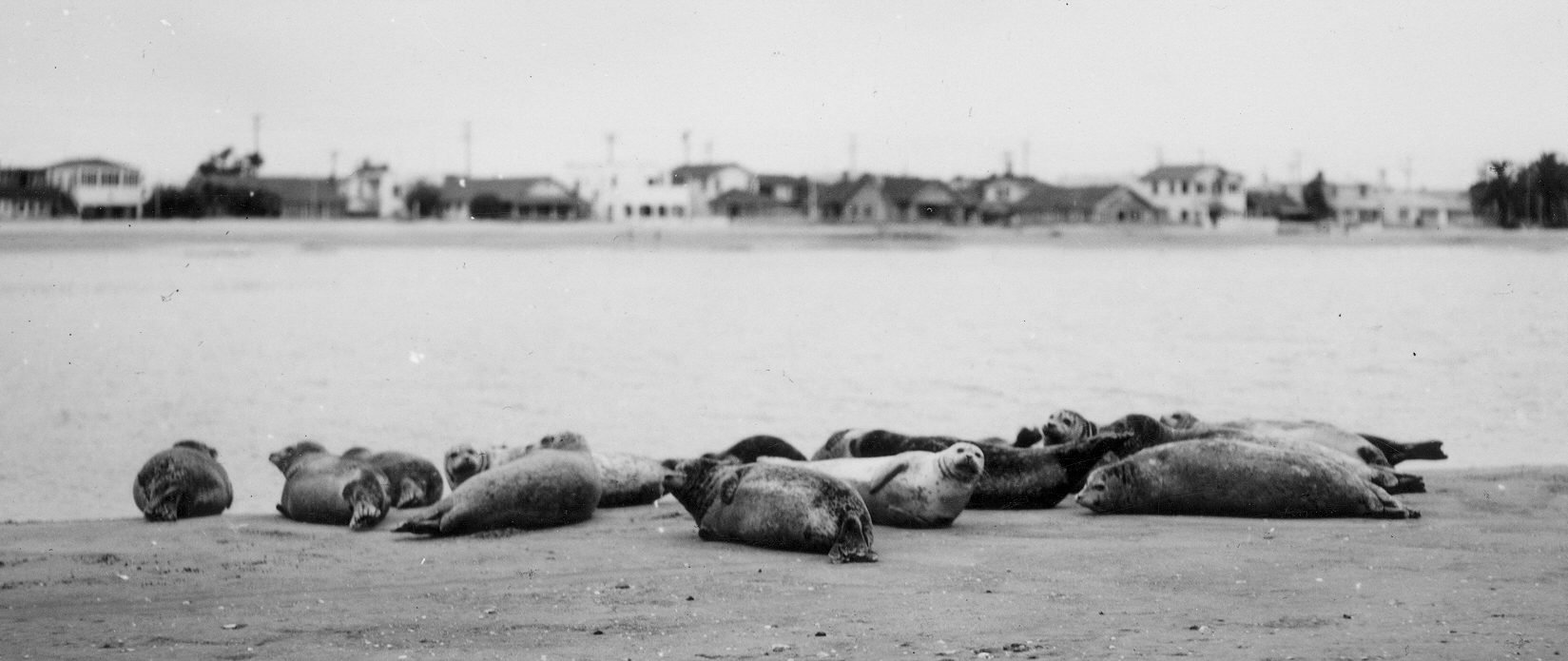 There are no known copyright restrictions on this image. All future uses of this photo should include the courtesy line, "Photo courtesy Orange County Archives." Comments are welcome after reading our Comment Policy. From the Tom Pulley Postcard Collection, Acc#2008.17